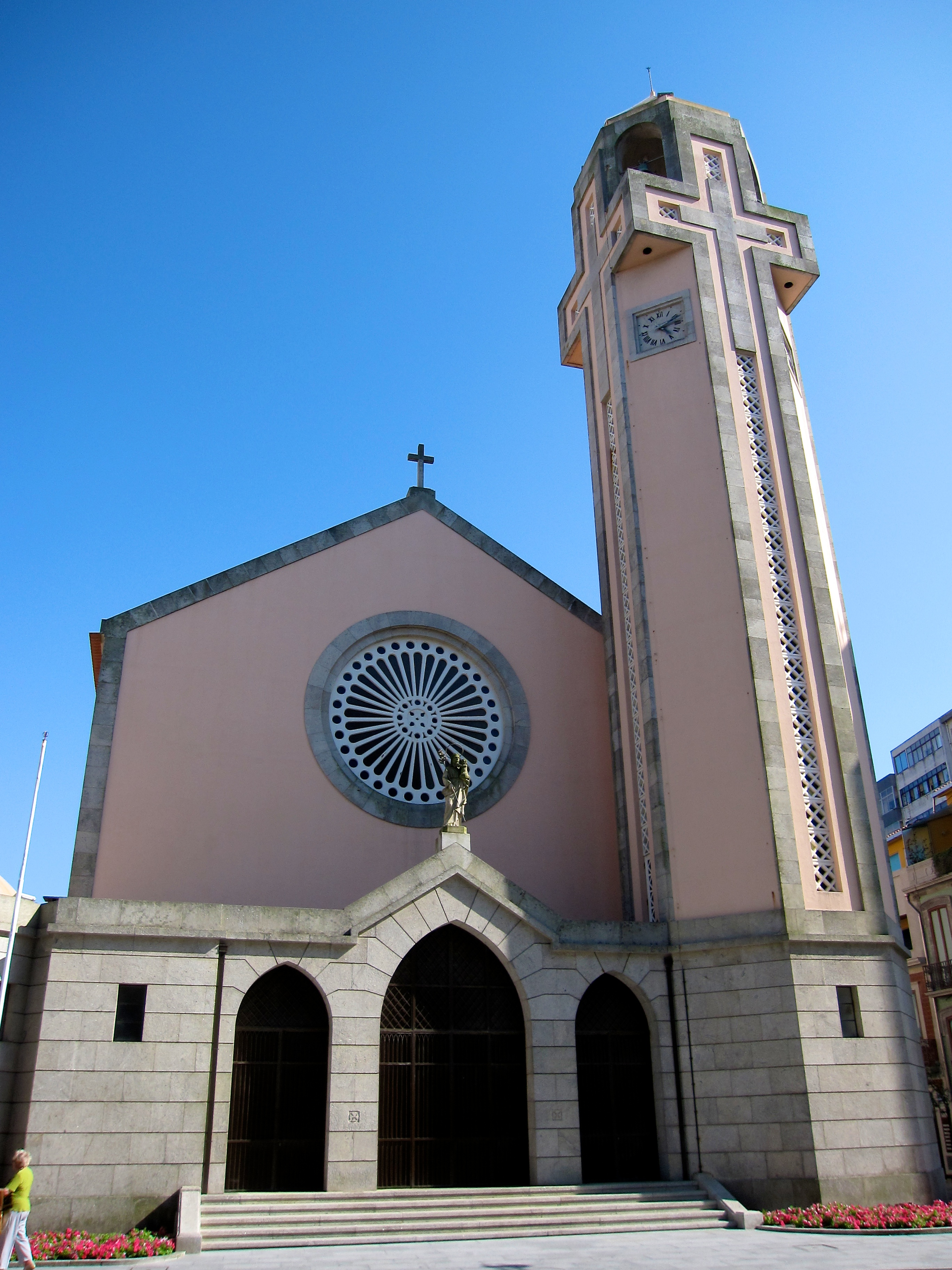 This file was uploaded for Wiki Loves Monuments in Portugal with the unique identifier 97025235.